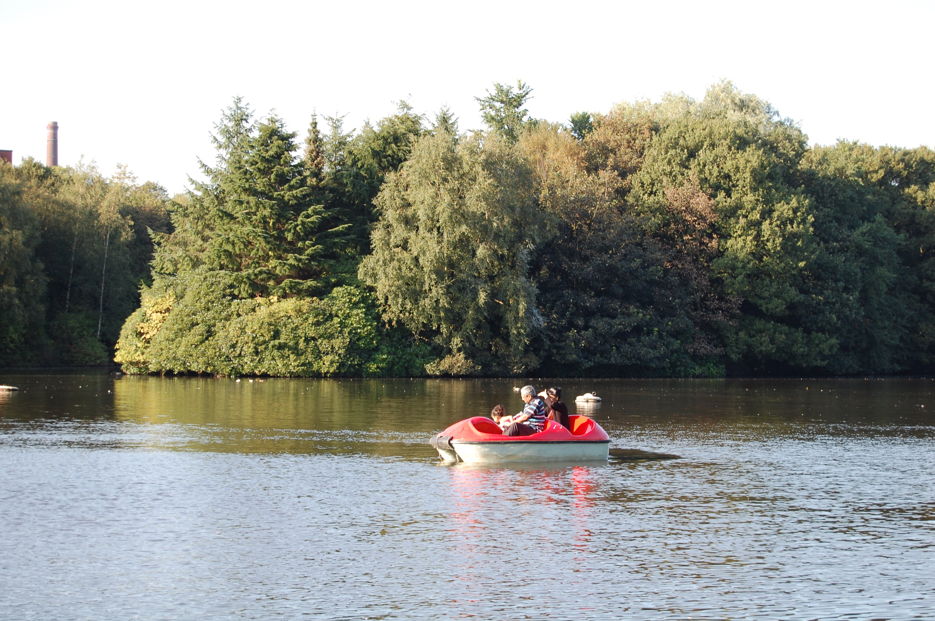 The former mill reservoir known as Chadwick Dams was incorporated into the Stamford Park in 1891. The reservoir was divided in two by an embankment, with the southern section becoming the present boating lake at which pedalos and rowing boats can be hired.